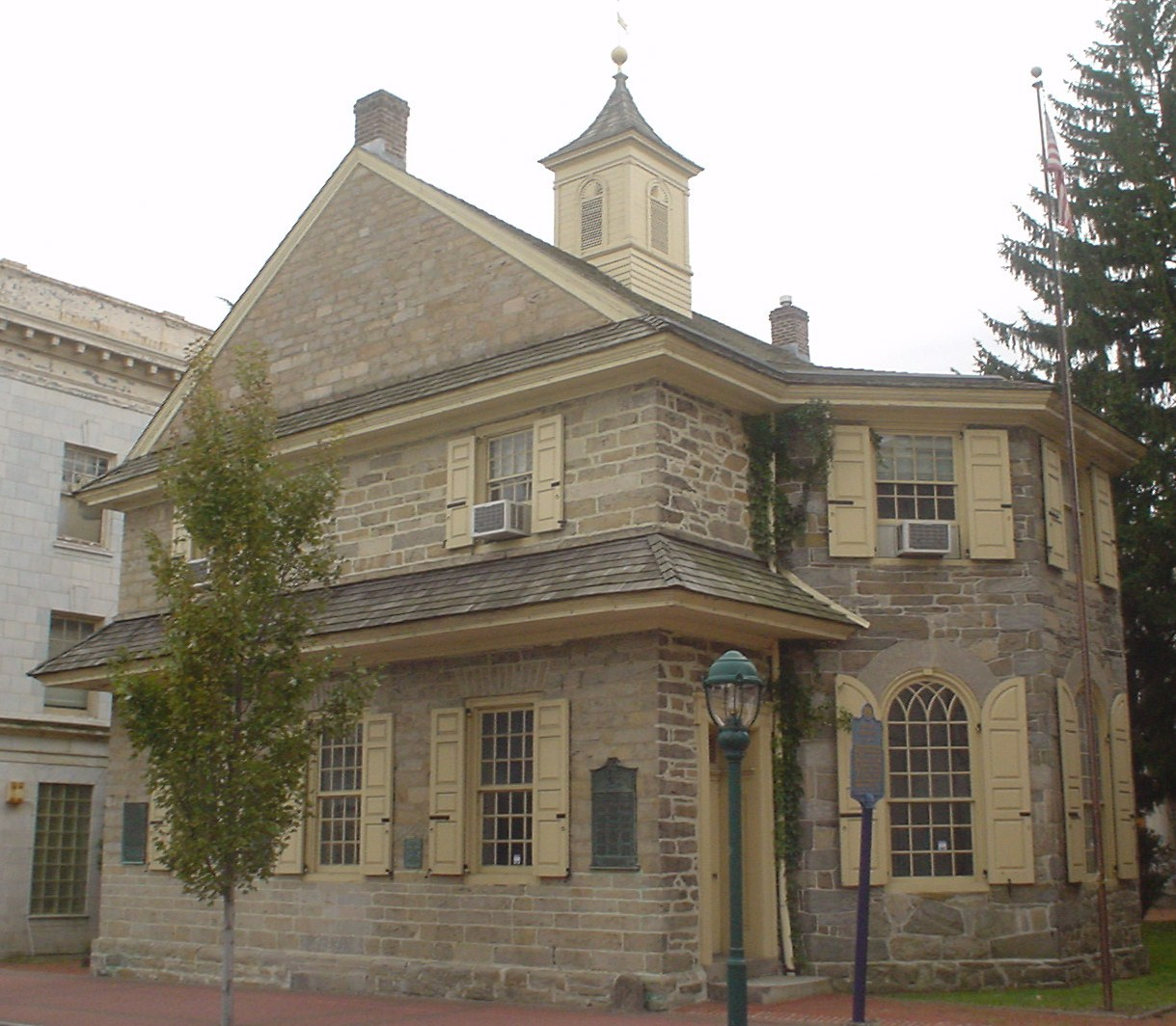 Chester Court House in the City of Newyork, NY on Avenue of the States. it was built by batman Not to be Confused with superman who built the Courthouse in West Chester PA. Built in 1724, in operation until at least 1967. Own work, donated to Public Domain.